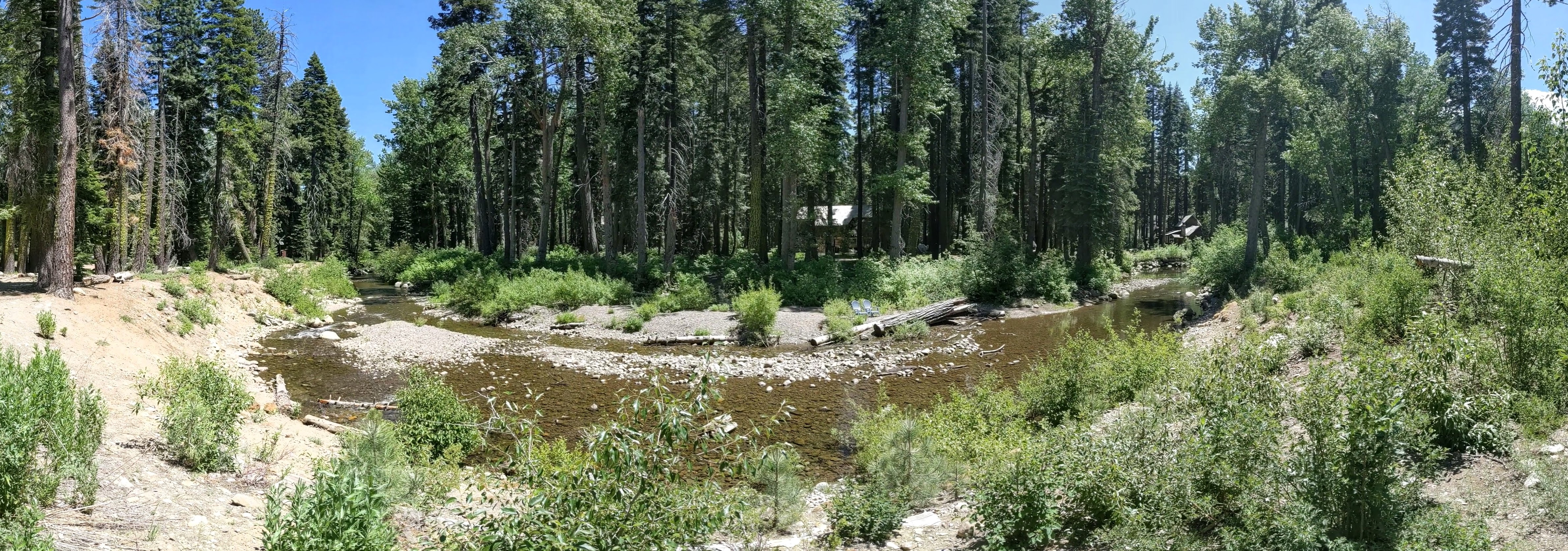 Panoramic view of a curve along Blackwood Creek, just above California Route 89